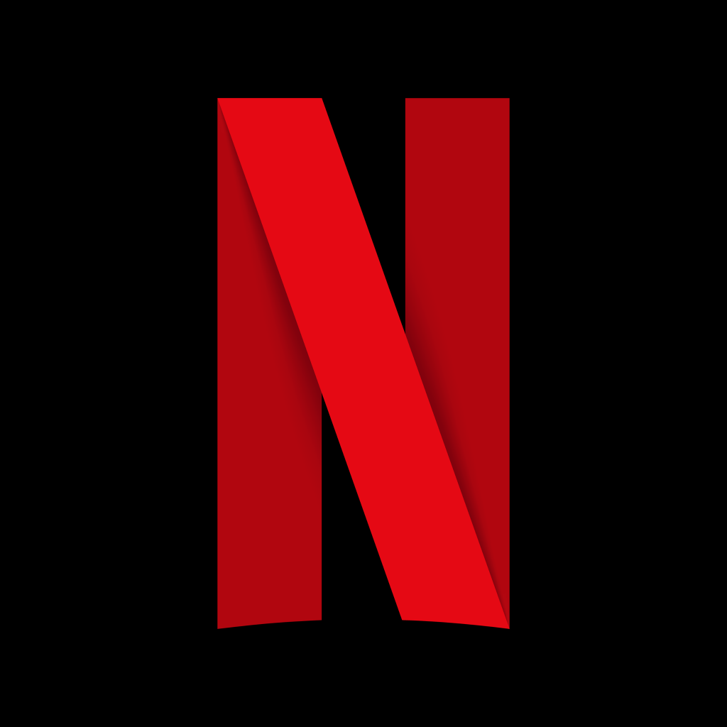 New Netflix Icon